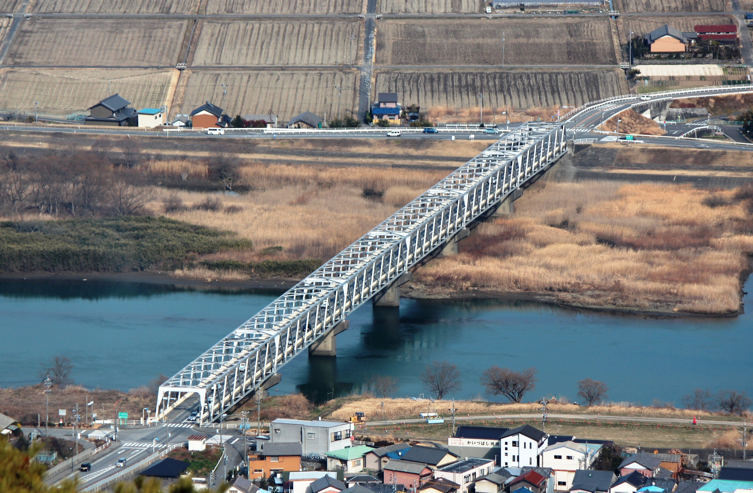 Kaizu Bridge over Ibi River seen from Mount Ishizuontake (Yoro Mountains) in Kaizu, Gifu Prefecture, Japan.